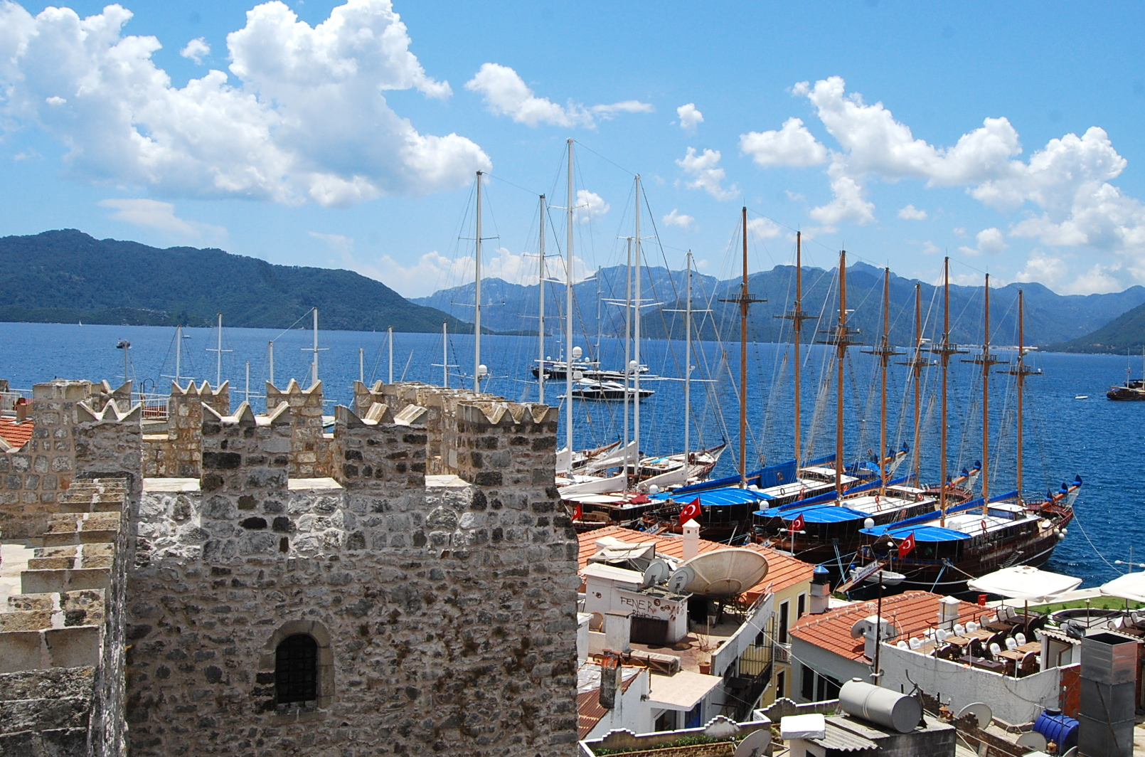 Marmaris